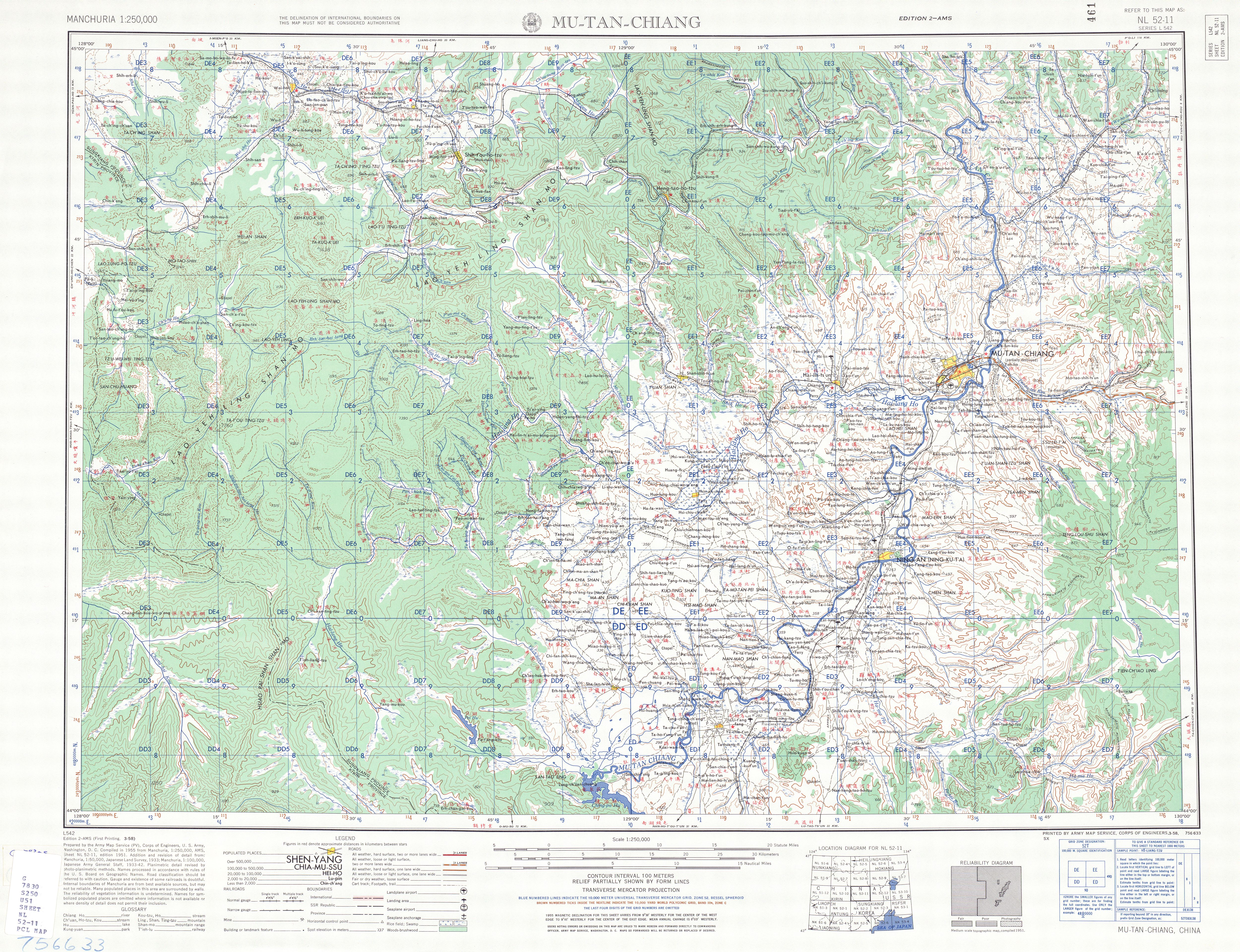 Manchuria AMS Topographic Maps